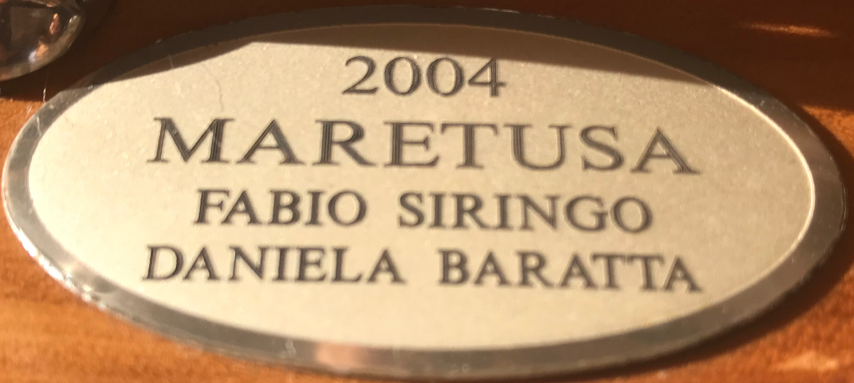 Patch on the Trophy